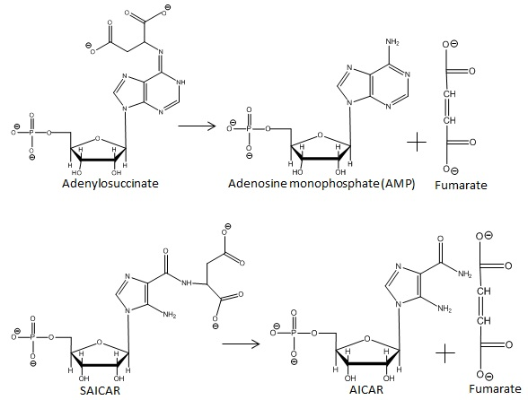 Overall reactions catalyzed by adenylosuccinate